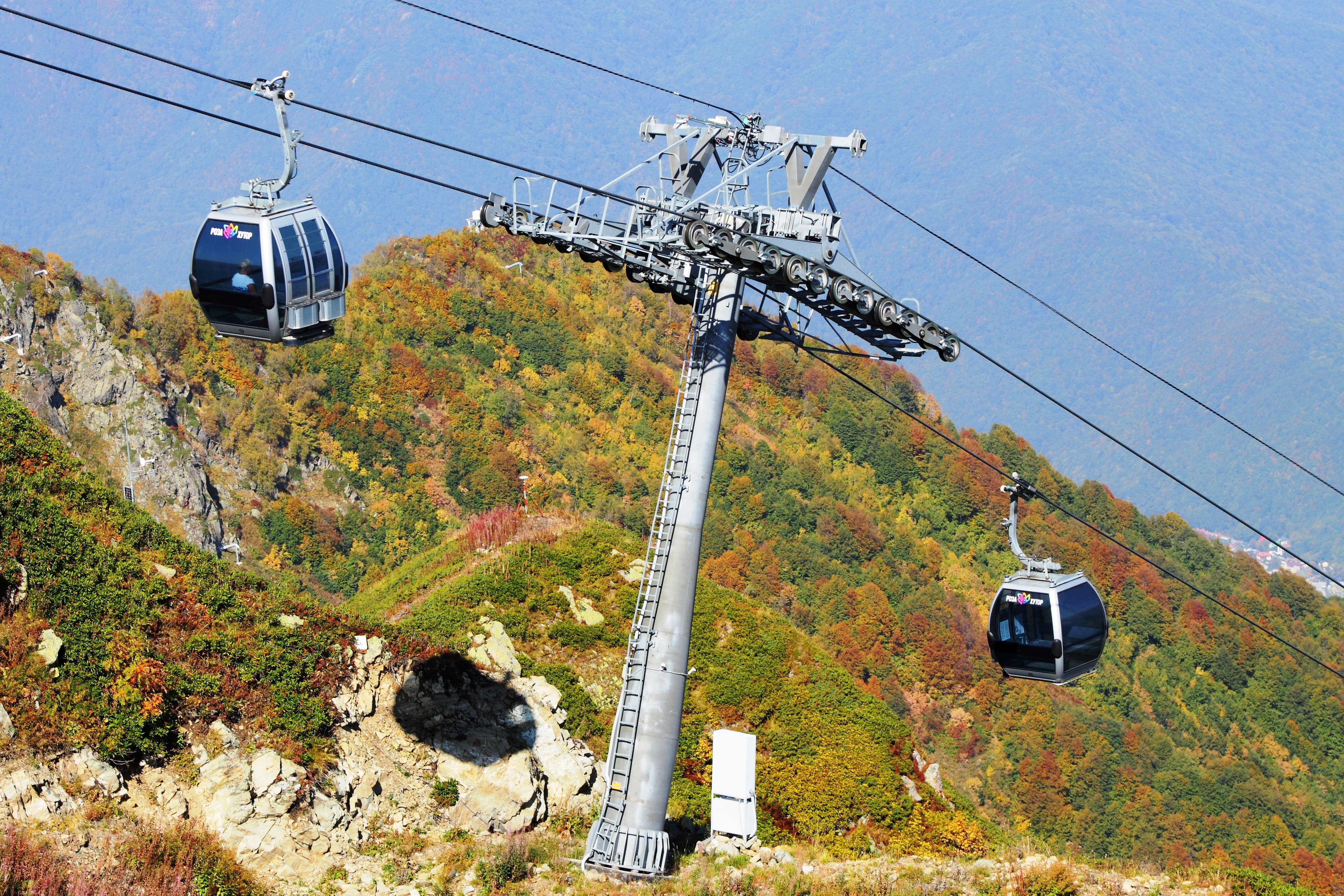 Gondola lift in Rosa Khutor Alpine Resort in Krasnaya Polyana, Sochi